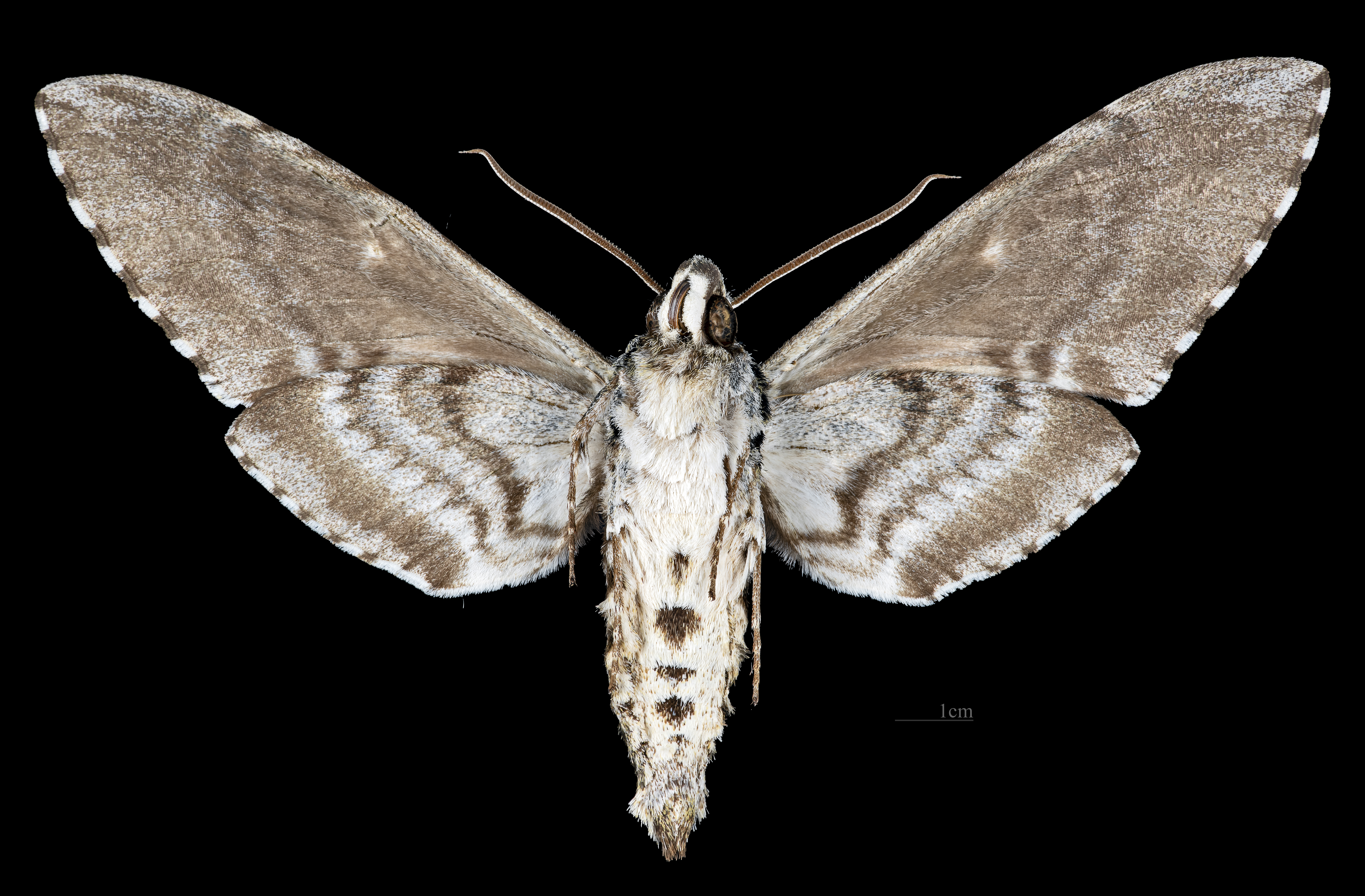 Manduca armatipes - △ Ventral side Collection of the Mathematician Laurent Schwartz